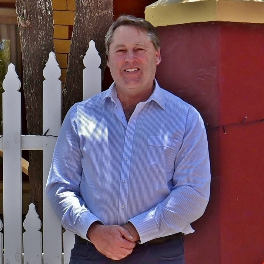 Rick Wilson, MP for the Division of O'Connor in the Australian House of Representatives, during the Gwalia’s Gold Festival at Hoover House, Gwalia, Western Australia